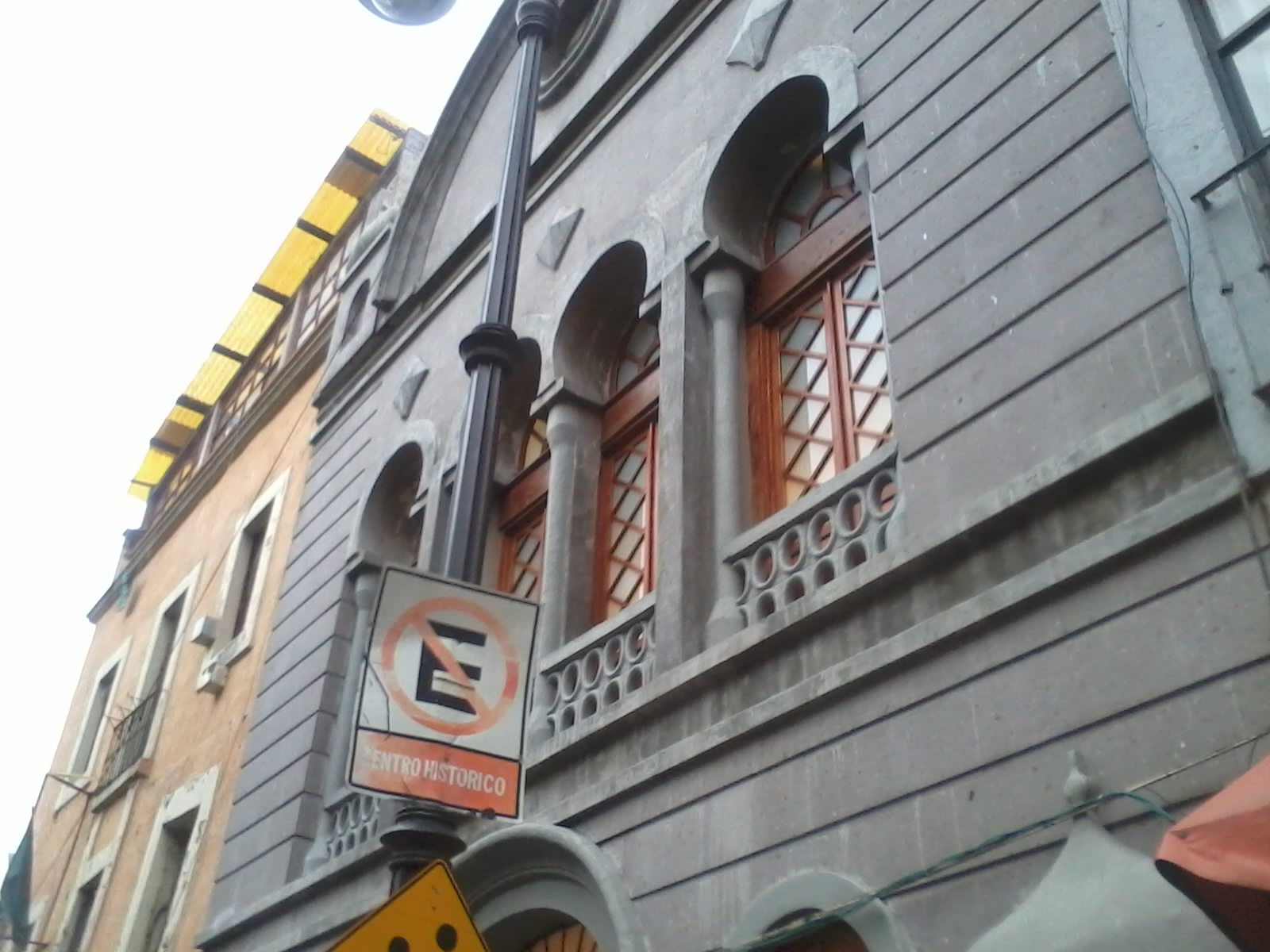 Visit guided by Mónica Unikel to the two synagogues on Justo Sierra Street (Historic Synagogue and Mount Sinaí Synagogue, Cuauhtémoc borough, Historic Center of Mexico City), as part of the Noche de Museos/Museums Night program of the Secretariat of Culture of the Government of the Federal District, Mexico.